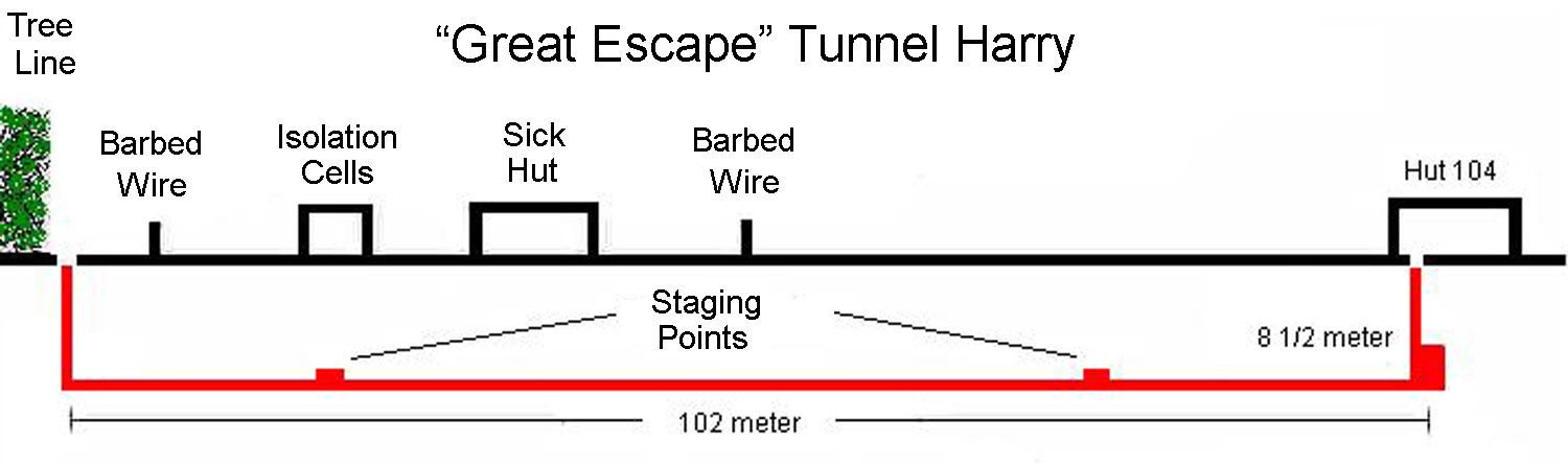 diagram of Harry tunnel of Great Escape